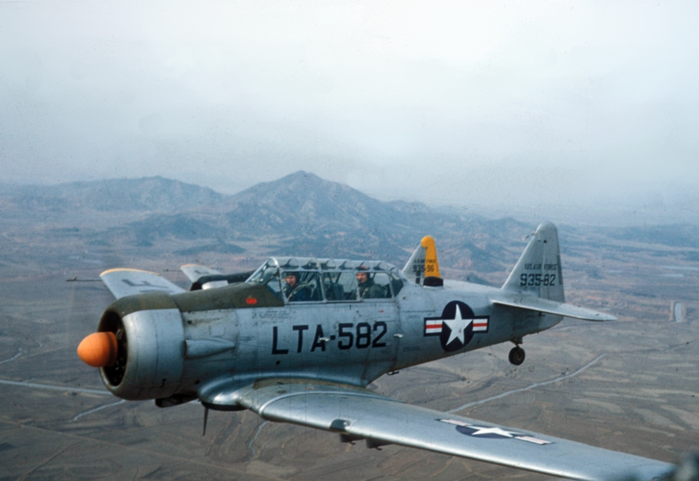 Two U.S. Air Force North American LT-6G Texan forward air control aircraft (s/n 49-3582, 49-3596) from the 6147th Tactical Control Group over Korea in 1952-53. Both planes were later sold to Turkey.